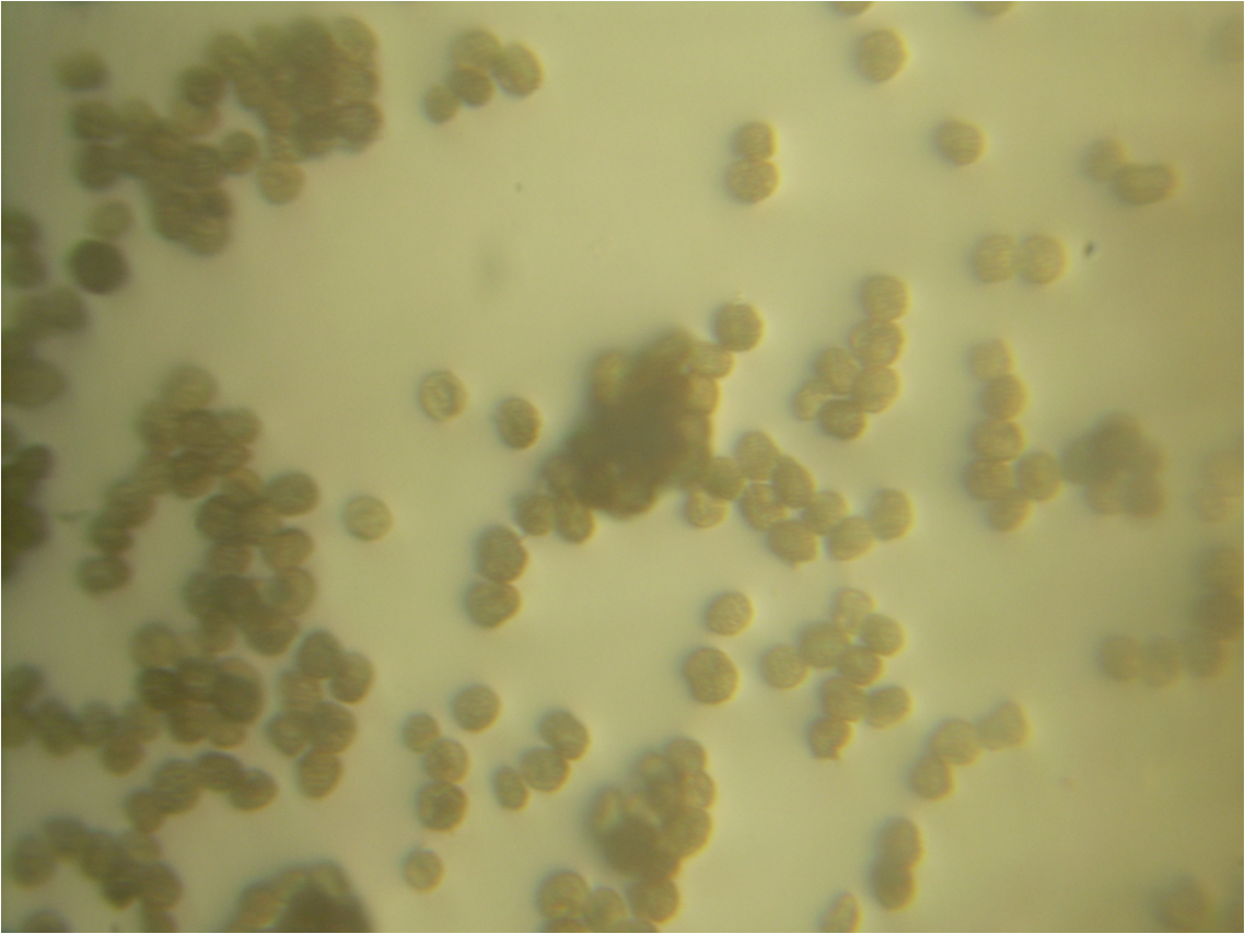 Diploid teleospores of Ustilago maydis magnified 160X. Recovered from sweet corn (Zea mays L.). Host status confirmed using Farr, D. F., Bills, G. F., Chamuris, G. P., & Rossman, A. Y. (1995) Fungi on Plants and Plant Products in the United States. APS Press: St. Paul, MN; pp. 428–33 ISBN 0-89054-099-3.